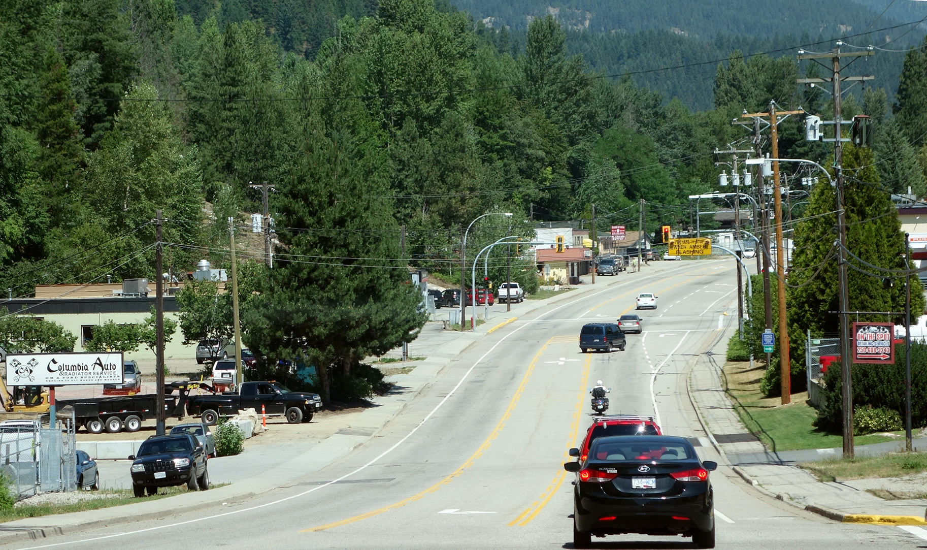 A street in Castlegar, West Kootenays, British Columbia, Canada